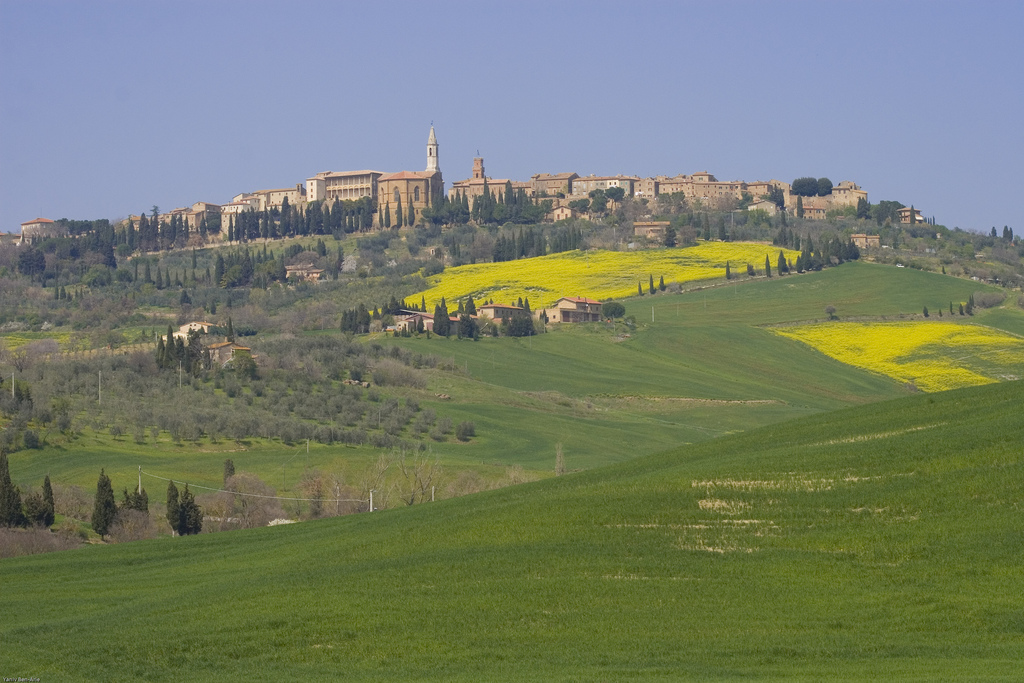 Pienza, Italy